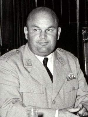 Inventarski broj: 1957 081 104